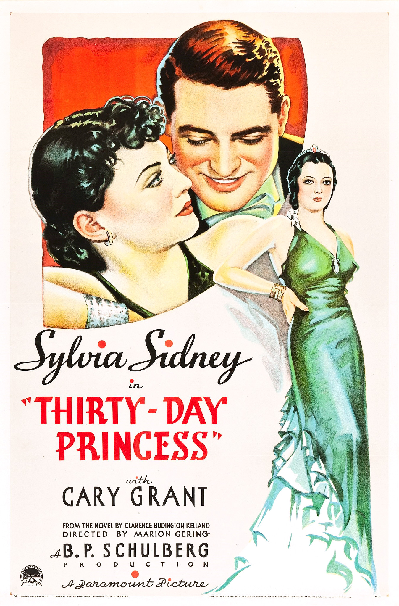 Poster for the 1934 film Thirty-Day Princess. A search for renewal was done in both film and artwork for the years 1961 and 1962. There were no listings for the film title in film renewals and no listings for Paramount in artwork. There's no evidence of the film or materials related to it remaining in copyright.